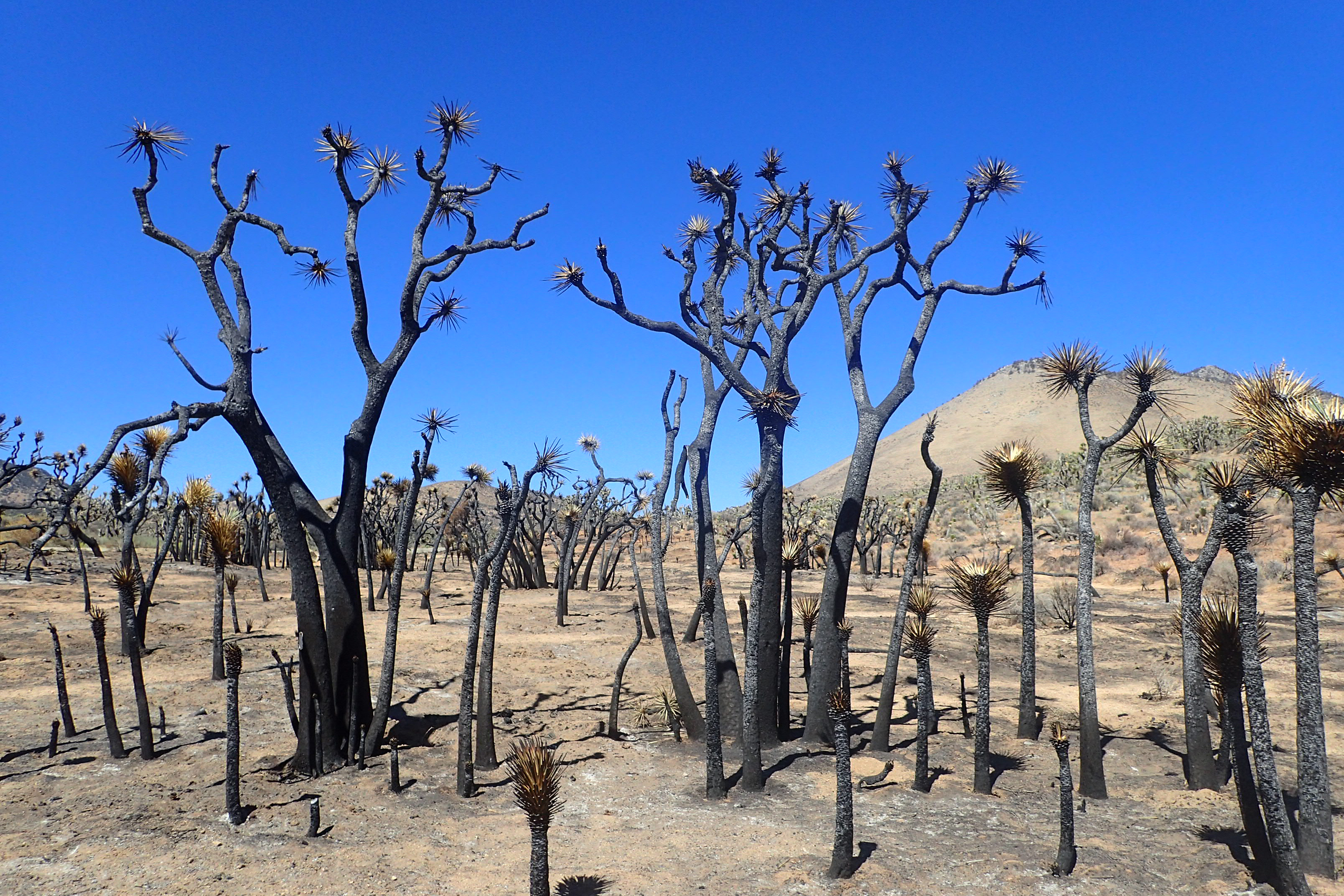 Joshua trees damaged by fire at Walker Pass, Kern County, California